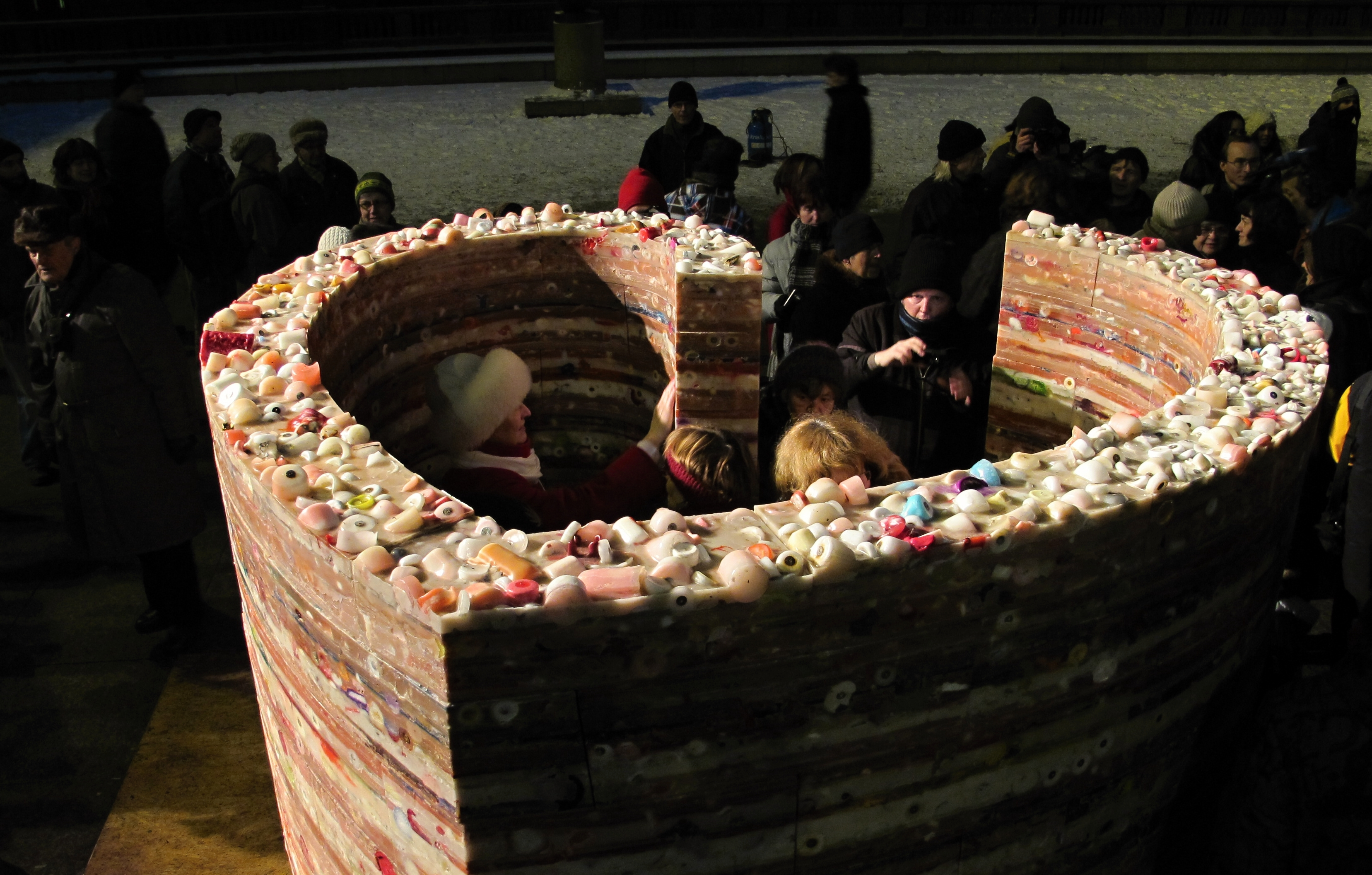 Heart made of candle wax to go on display in memory of Václav Havel. National Theatre plaza in Prague, Czech Republic